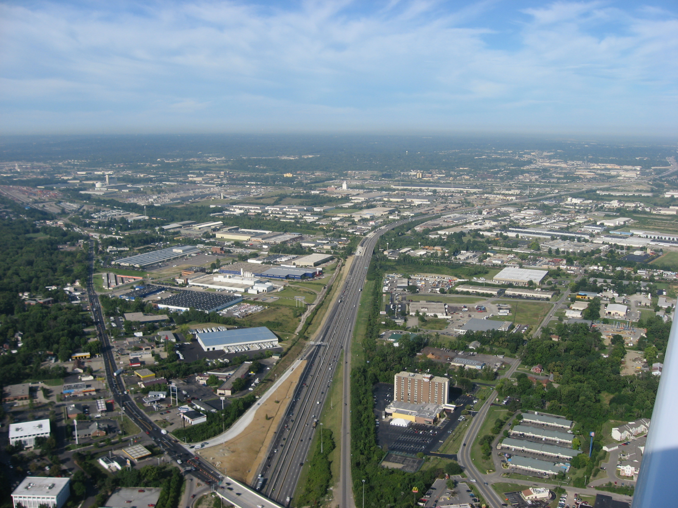 Aerial view of Interstate 275 in the city of Sharonville just west of its interchange with U.S. Route 42, northeast of the city of Cincinnati, Ohio, United States. Picture taken from a Diamond Eclipse light airplane at an altitude of 1,750 feet MSL and a bearing of approximately 248º.